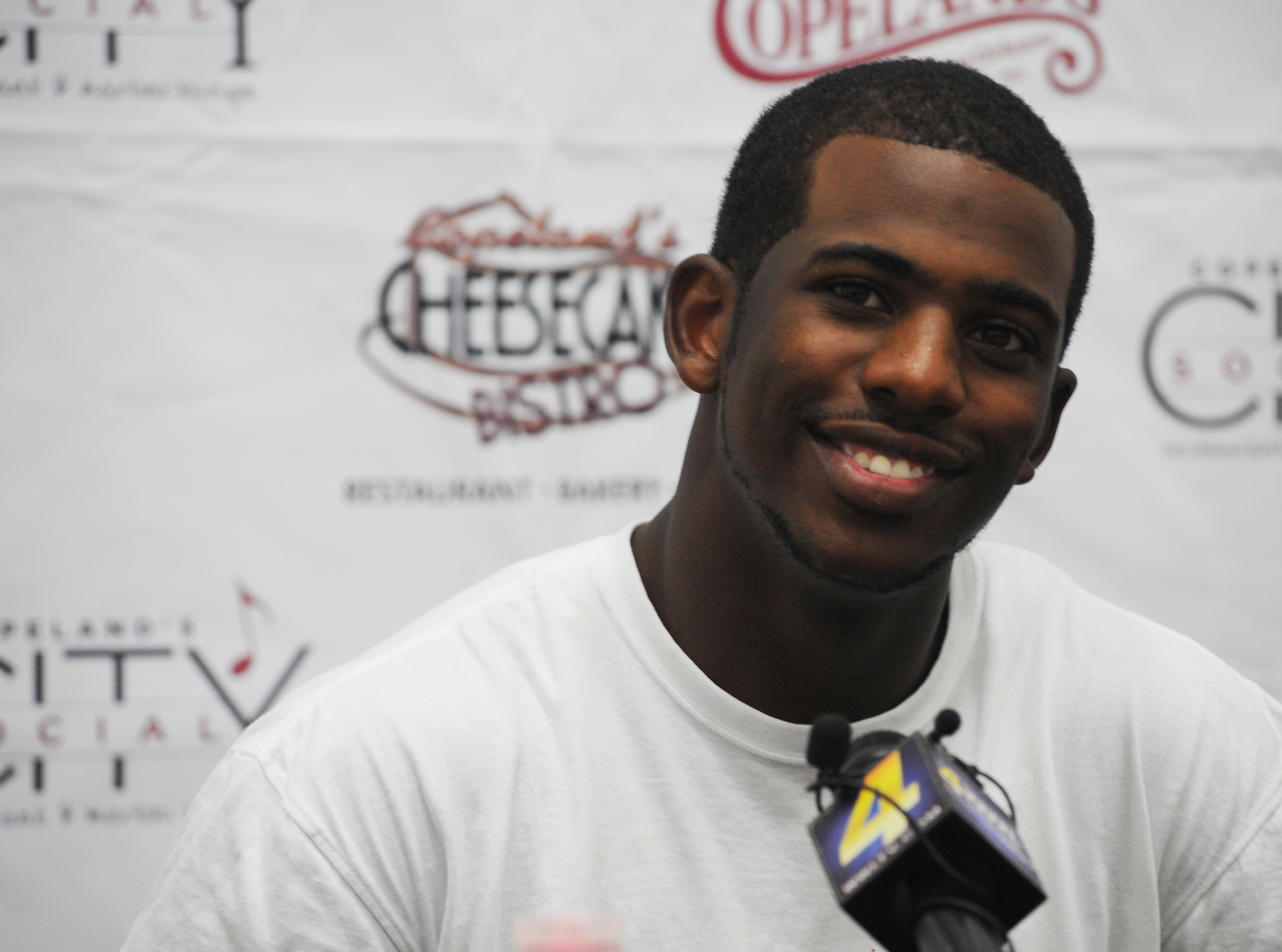 NBA player Chris Paul answering questions at a youth basketball camp.